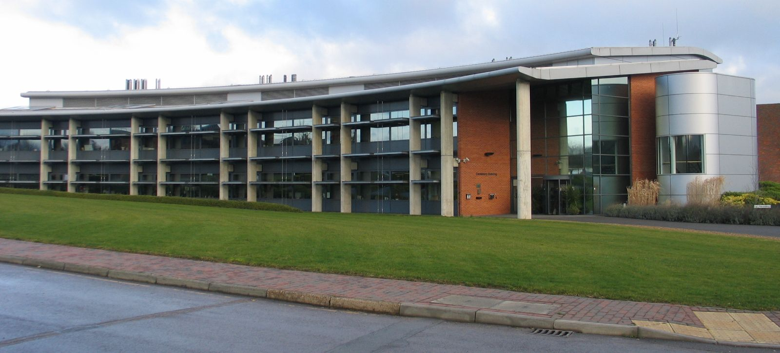 Centenary building at the Rothamsted experimental station in Harpenden, Hertfordshire, England